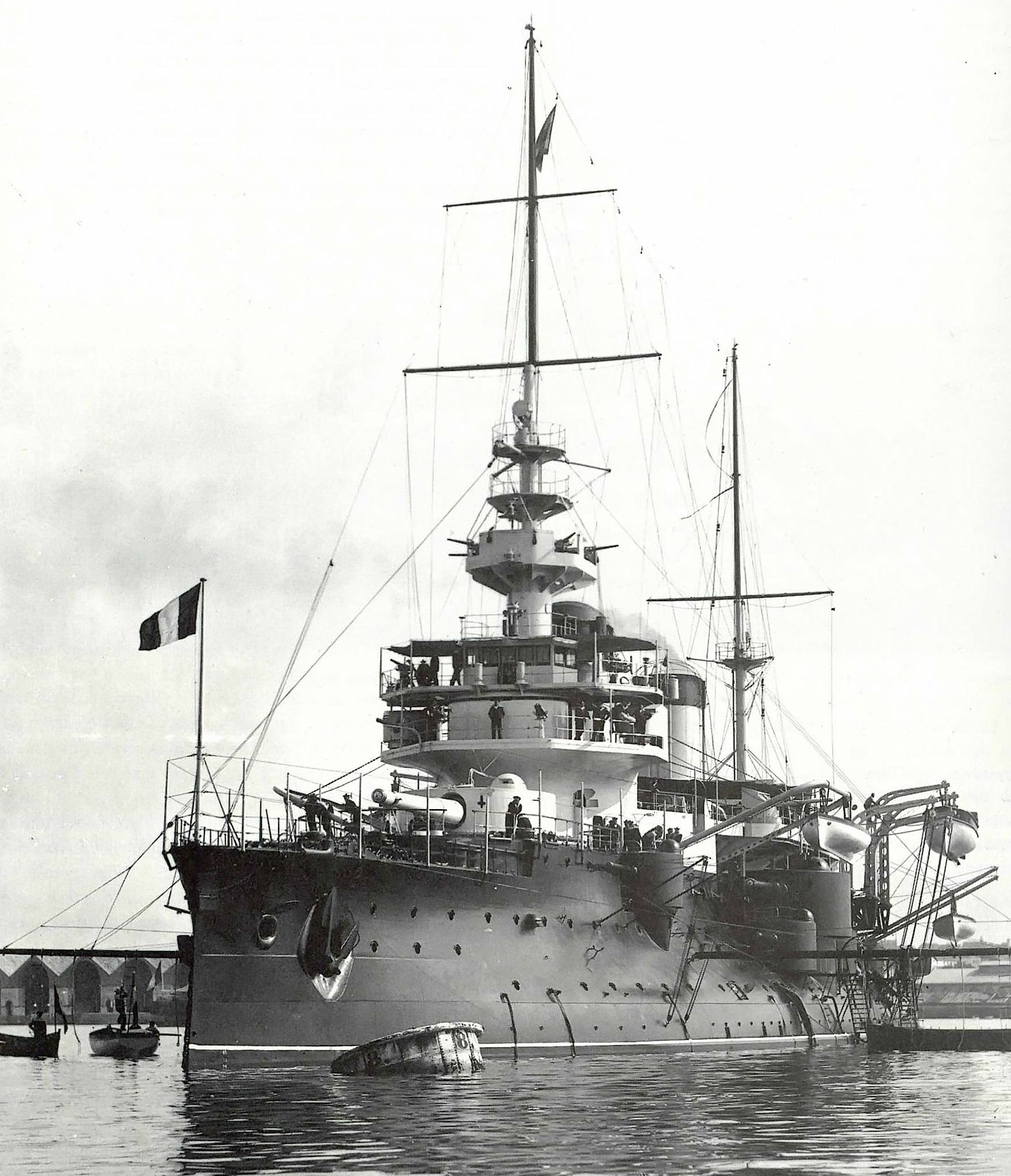 French battleship Bouvet.